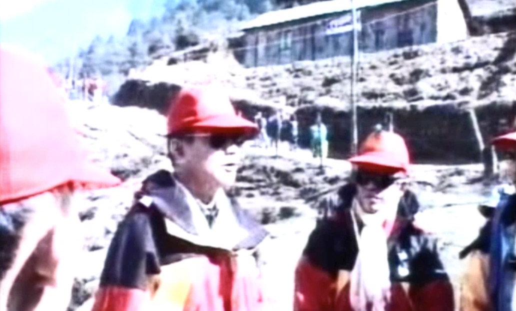 Prabowo briefs his team at base camp, Nepal a night before the team made the historic climb to Mt Everest.